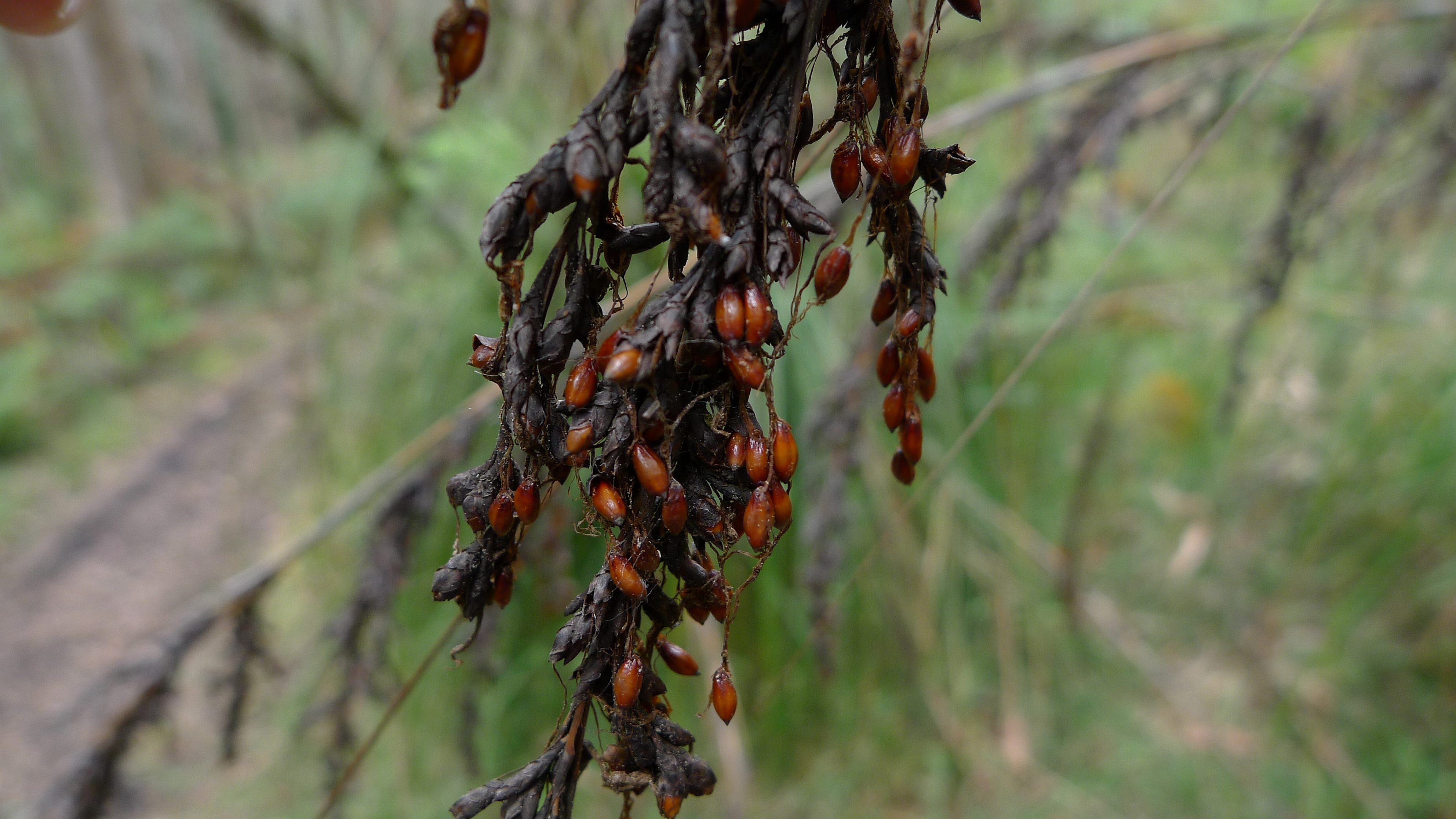 Seeds of Gahnia grandis, a saw sedge. Rostella Reserve, Dilston Tasmania Australia, January 2012.